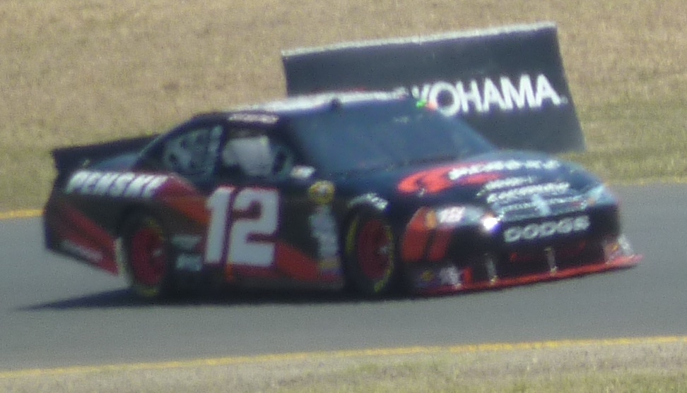 Brad Keselowski's No. 12 Penske Racing Dodge at Infineon Raceway in 2010